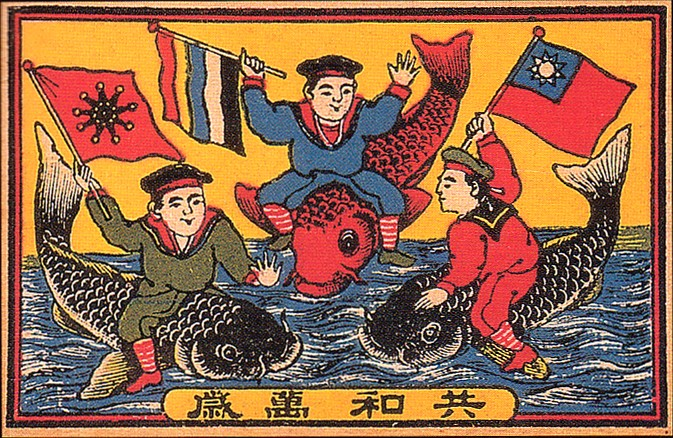 A rare image of the three flags of the Republic of China together. At center, the first national flag (see Image:Flag of the Republic of China 1912-1928.svg), at left the army flag (see Image:Chinese-Army-Wuhan-Flag-1911-1928 dots19.svg), and at right the Sun Yat Sen flag (now the flag of Taiwan) (see Image:Flag of the Republic of China.svg). Underneath the picture is the slogan "Long live the republic!" (共和萬歲, in traditional right-to-left single-character column order).